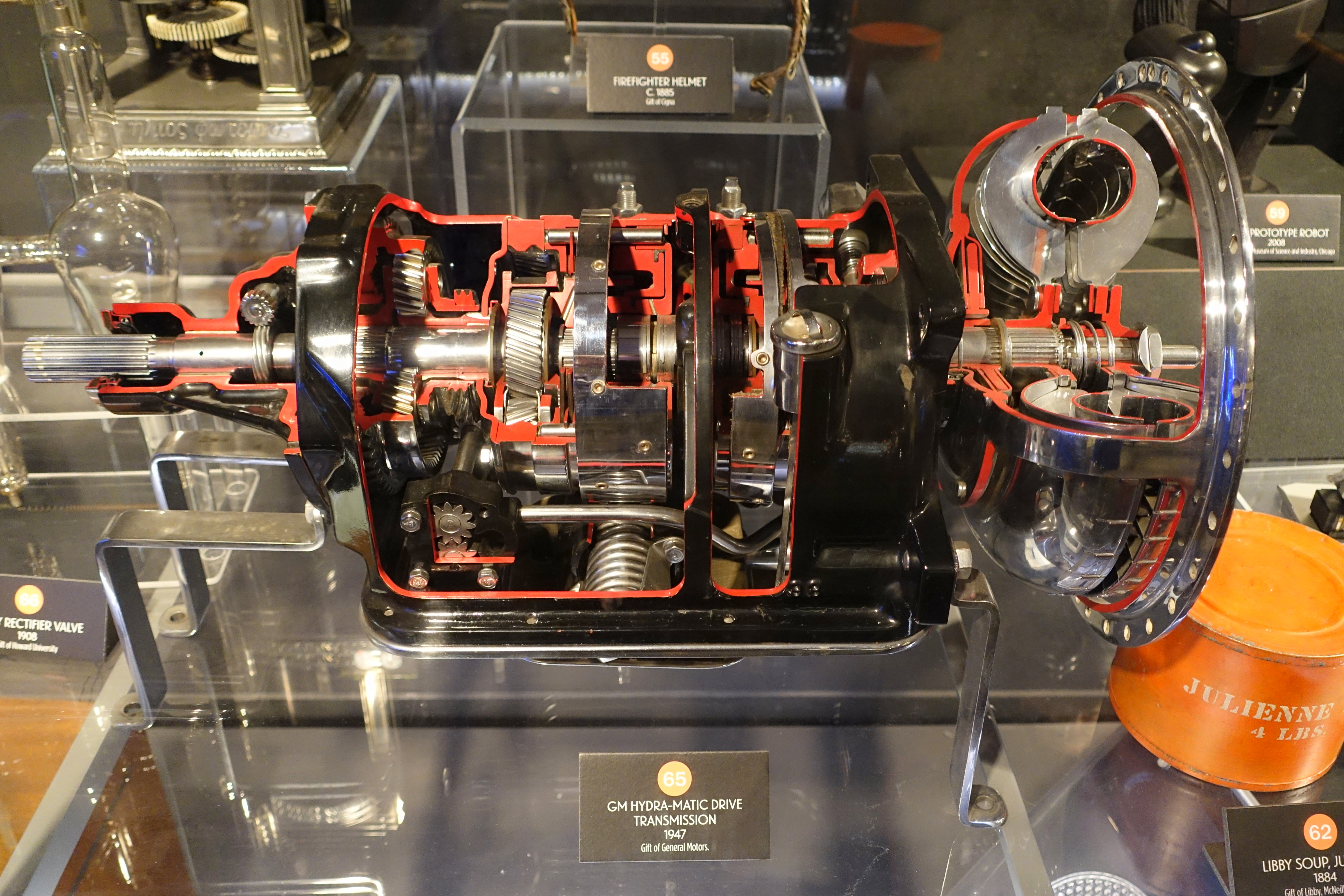 Exhibit in the Museum of Science and Industry, Chicago, Illinois, USA.